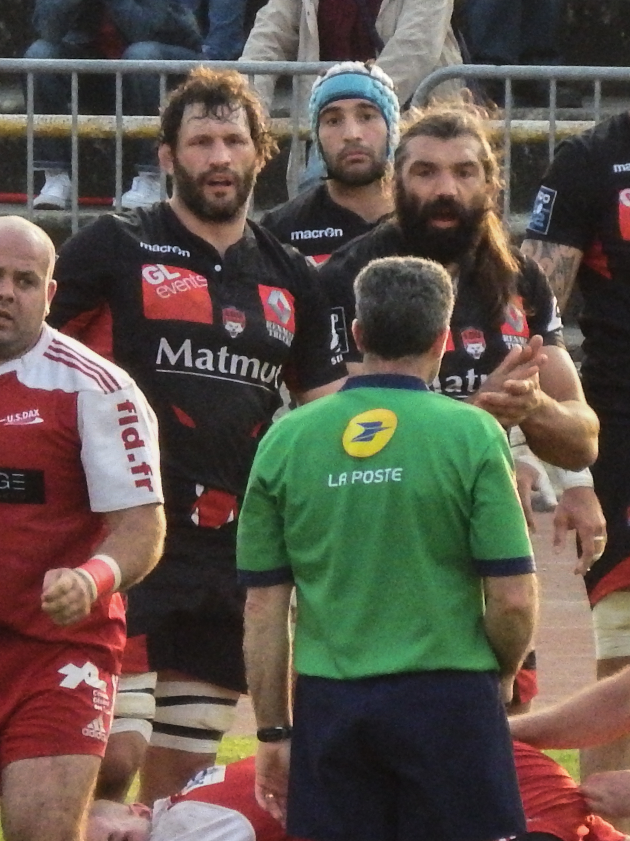 Pro D2 2013-2014 — 12 April 2014, Stade Maurice-Boyau. Match between: US Dax — Lyon OU